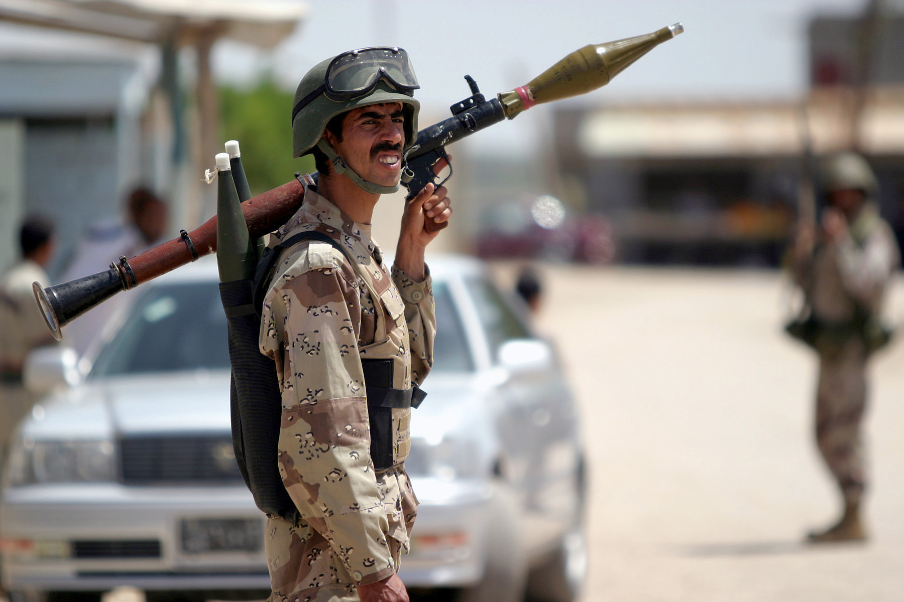 member of the Iraqi Security Force (ISF) Commandos, 2nd Squad (SQD), 1st Platoon (PLT), 1st Company (CO), 9th Battalion (BN), 2nd Brigade (BDE), performs a foot patrol, armed with a rocket propelled grenade (RPG) launcher, through Cooley Camp, a neighborhood near the Habbaniyah Airbase. ISF perform security and stabilization operations (SASO) in Al Anbar Province Iraq in support of Operation IRAQI FREEDOM. Location: COOLEY CAMP, AL ANBAR IRAQ (IRQ)